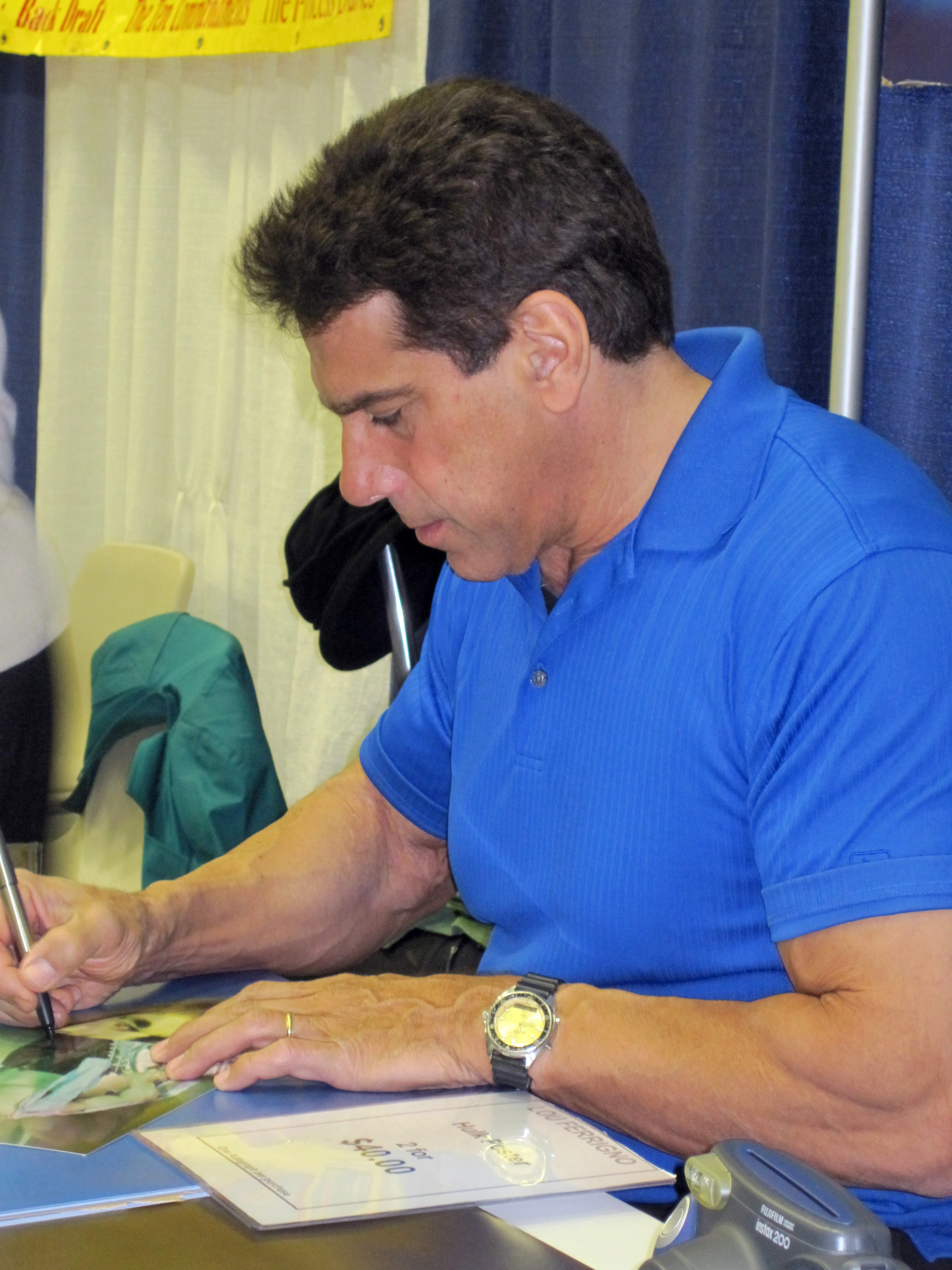 Lou Ferrigno at WonderCon 2010.